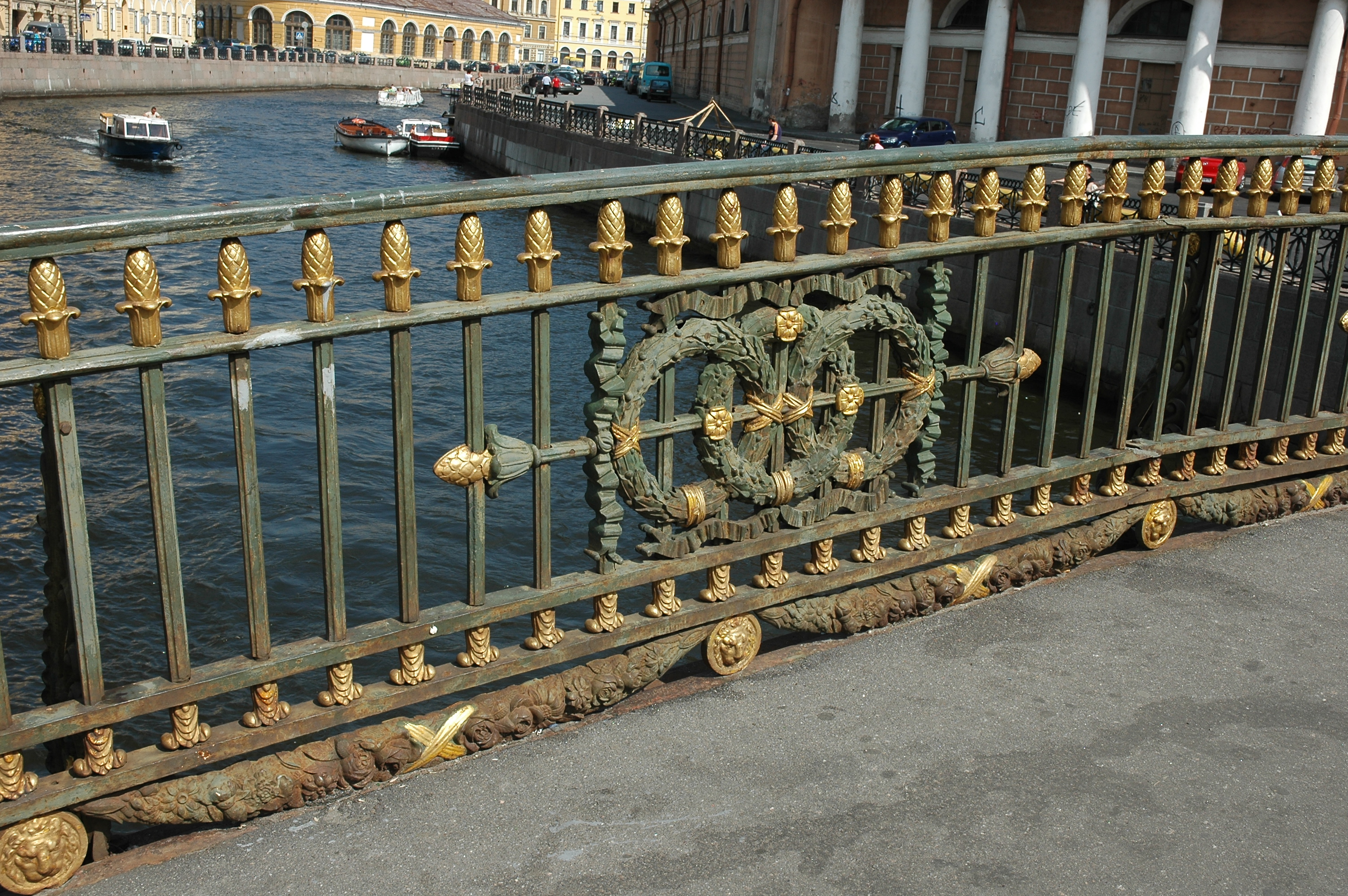 Bolshoi Koniushennyi bridge across Moika river, St Petersburg (fence)